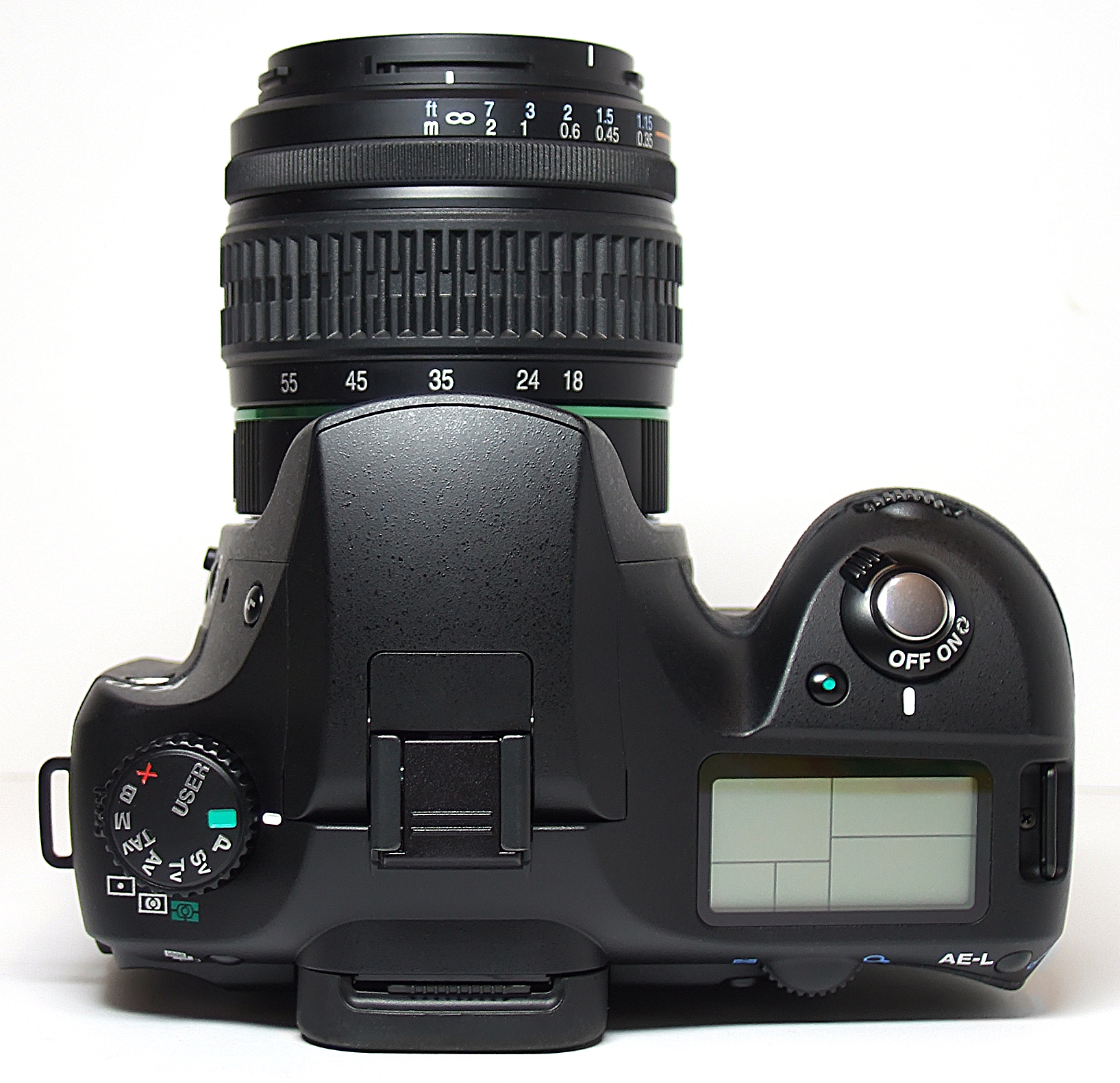 Pentax K10D Digital SLR Camera with 18-55mm Lens (2006)